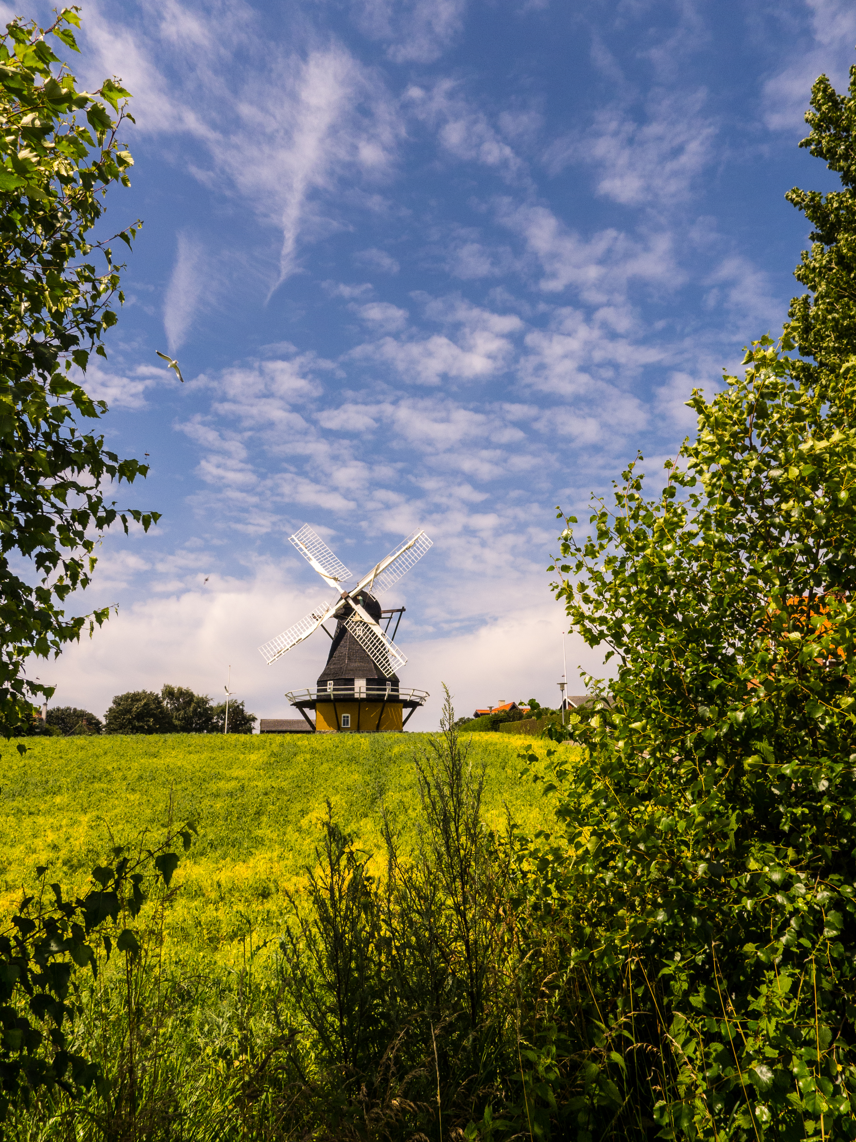 Agersø Mølle on the island of Agersø in DenmarkDansk: Agersø Mølle på øen Agersø